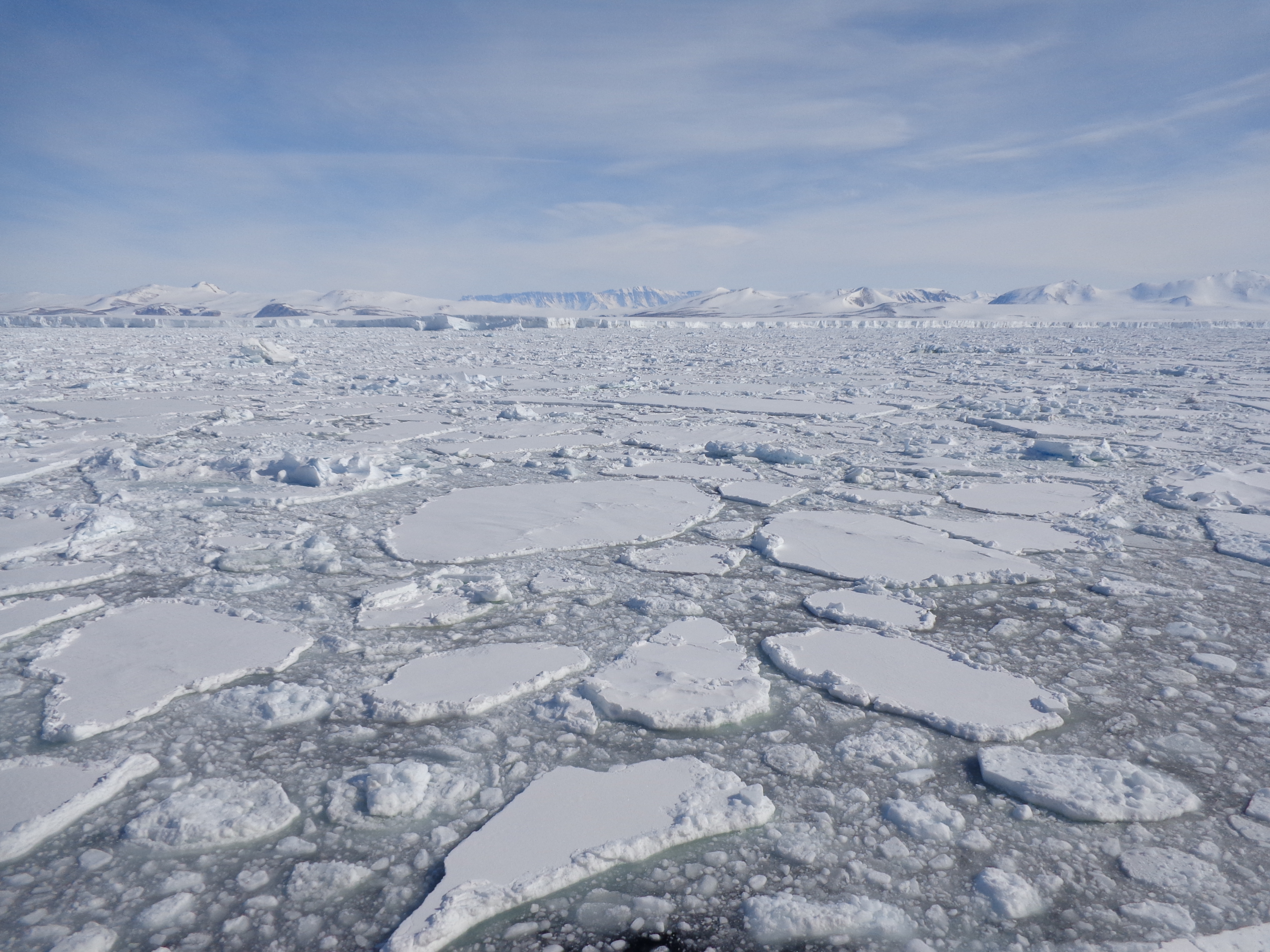 Ross Sea, Austral Summer 2016